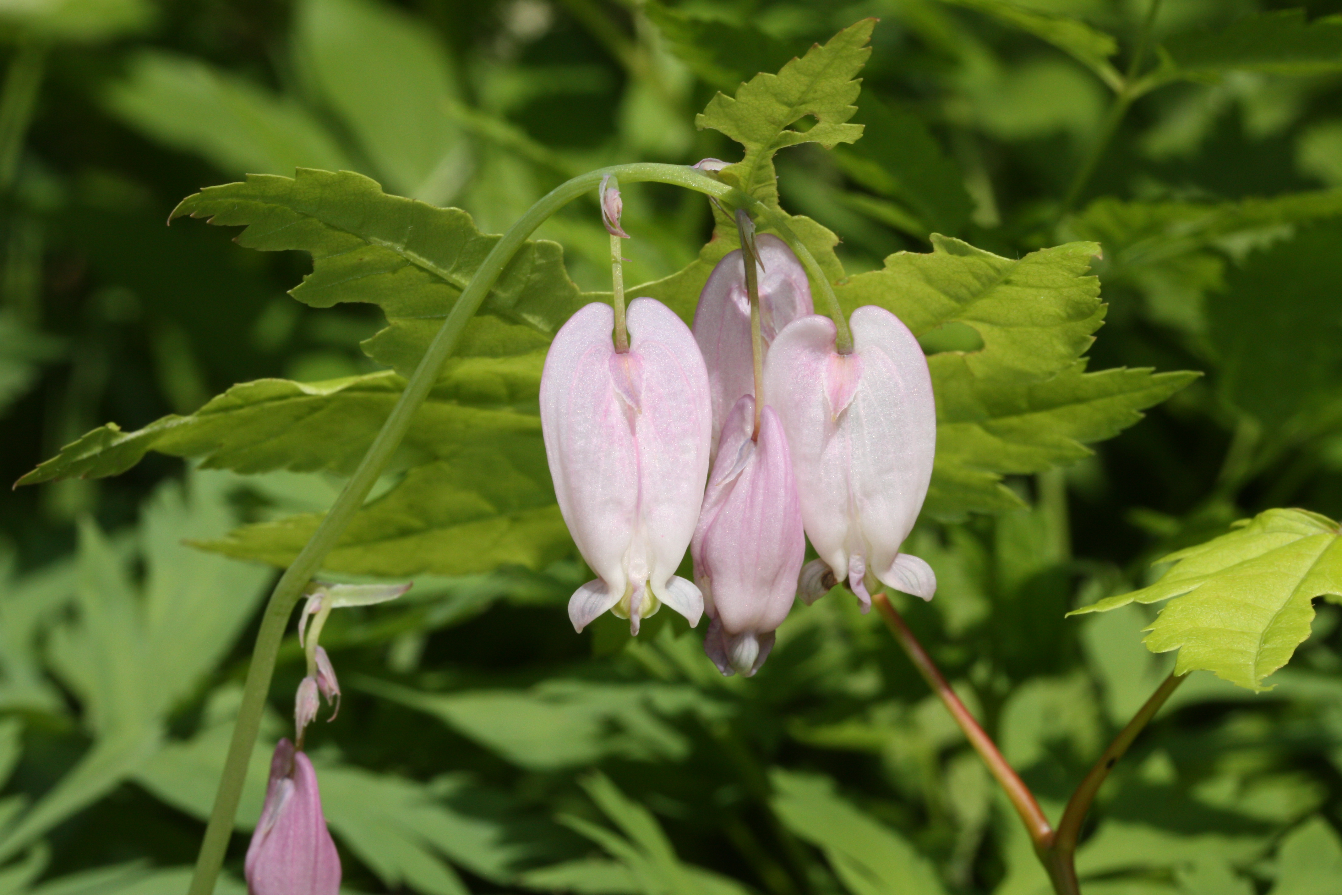 Pacific Bleeding Heart